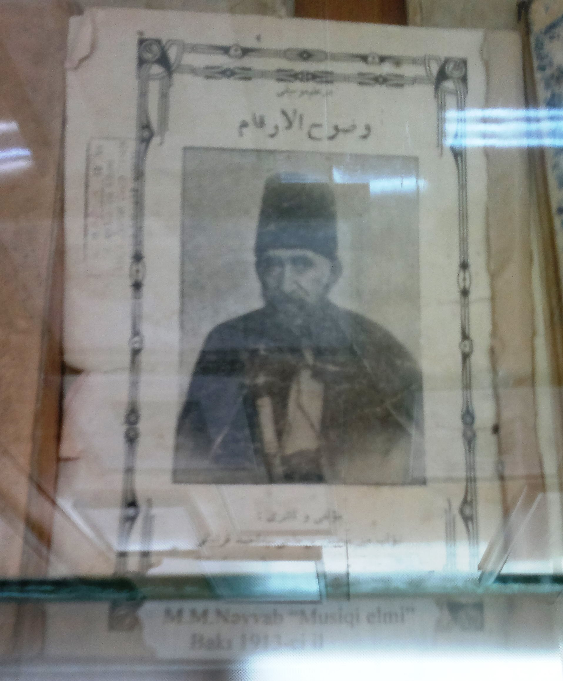 "Science of Music" by Mir Mohsun Navvab (Baku, 1913). Azerbaijan State Theater Museum.